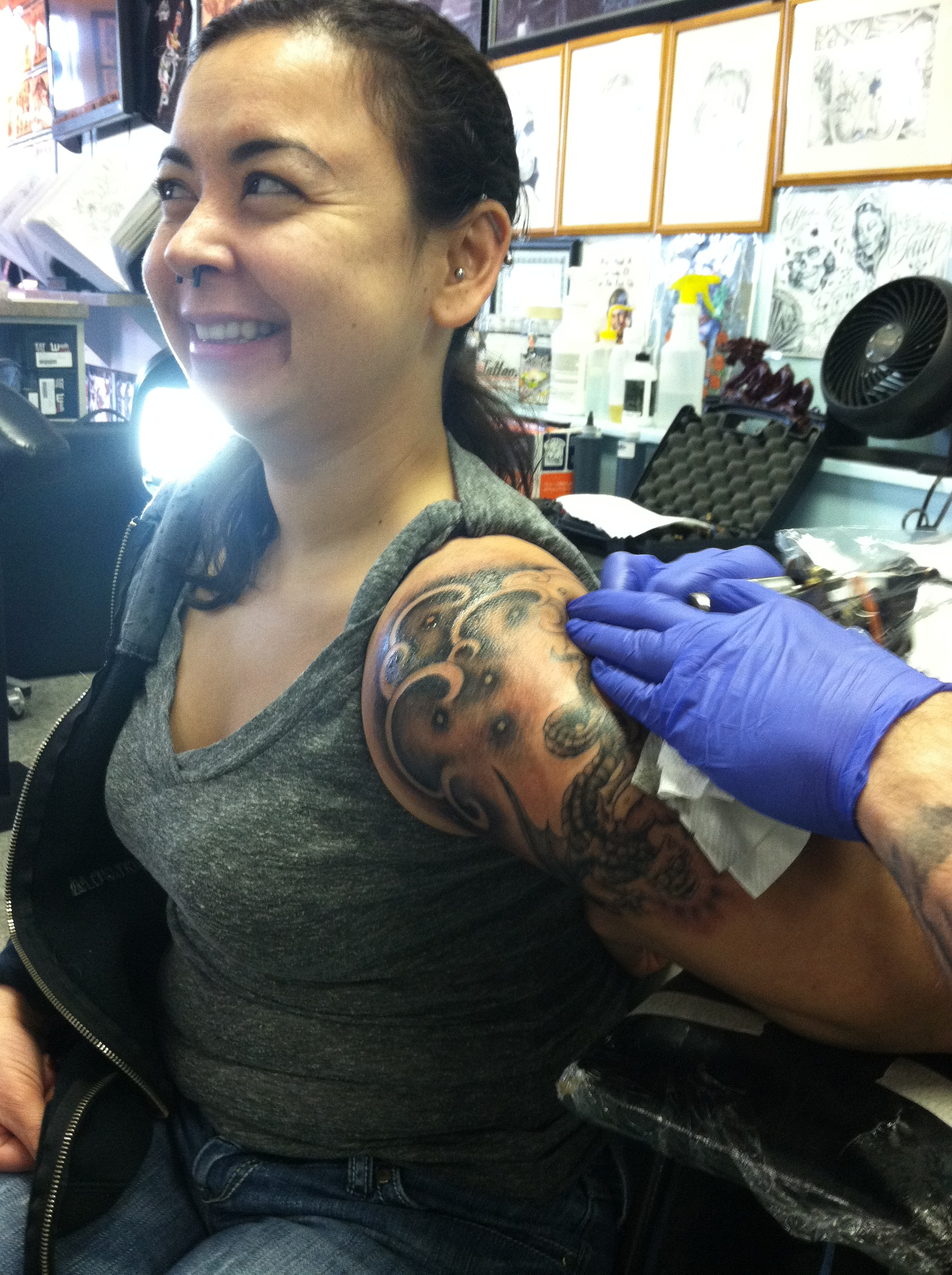 This young lady was getting a Chinese Dragon and clouds added to her art collection. She had no problem with me taking the photo, she asked if she should grimace to show pain. I was more interested in capturing the moment than the art. I like people pictures! Especially of strangers.